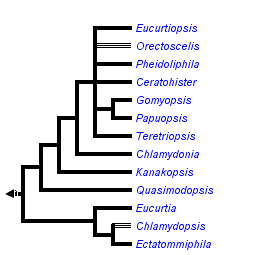 cladogram of Chlamydopsinae